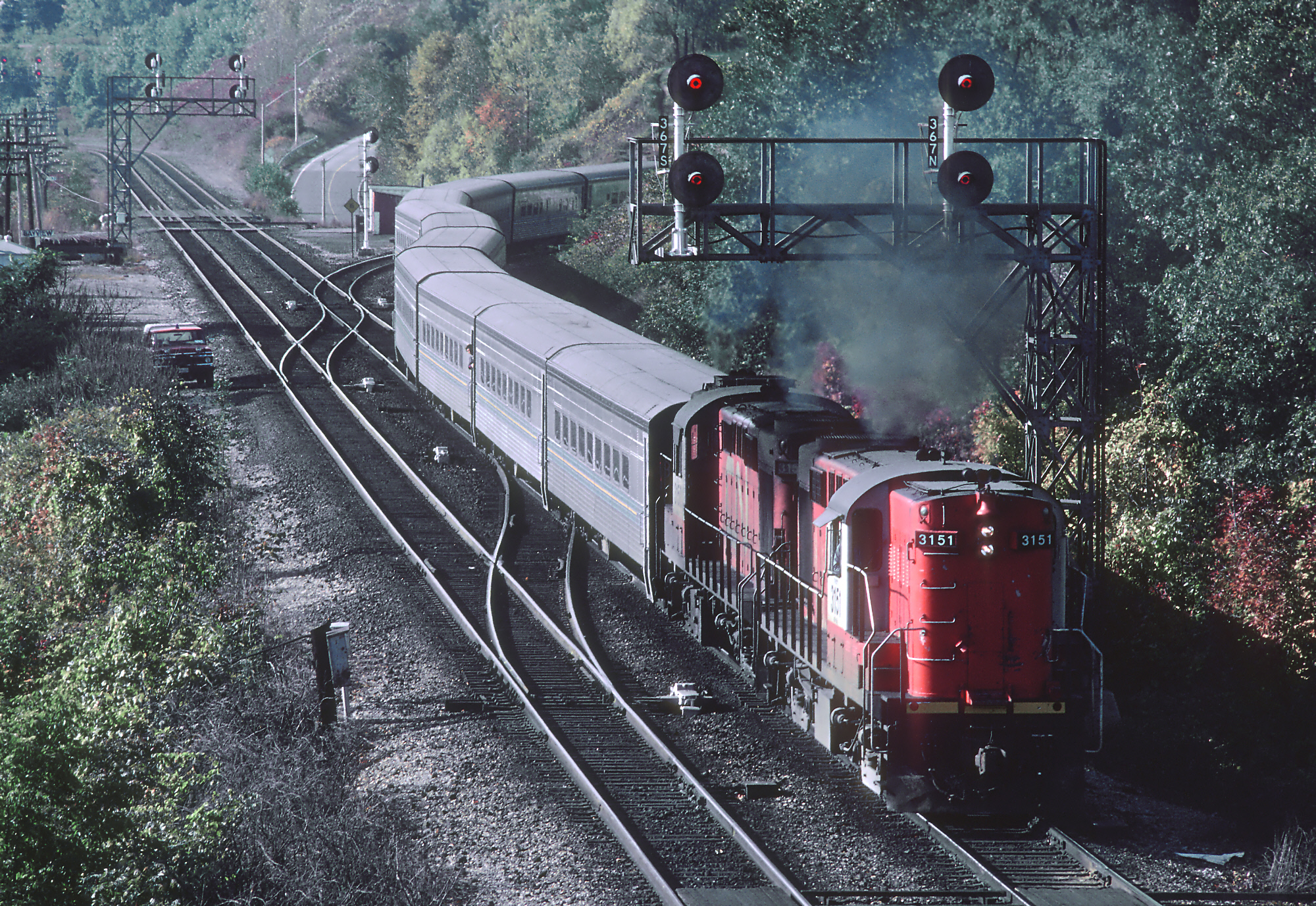 A Via Rail service composed of Tempo cars at Bayview Junction.